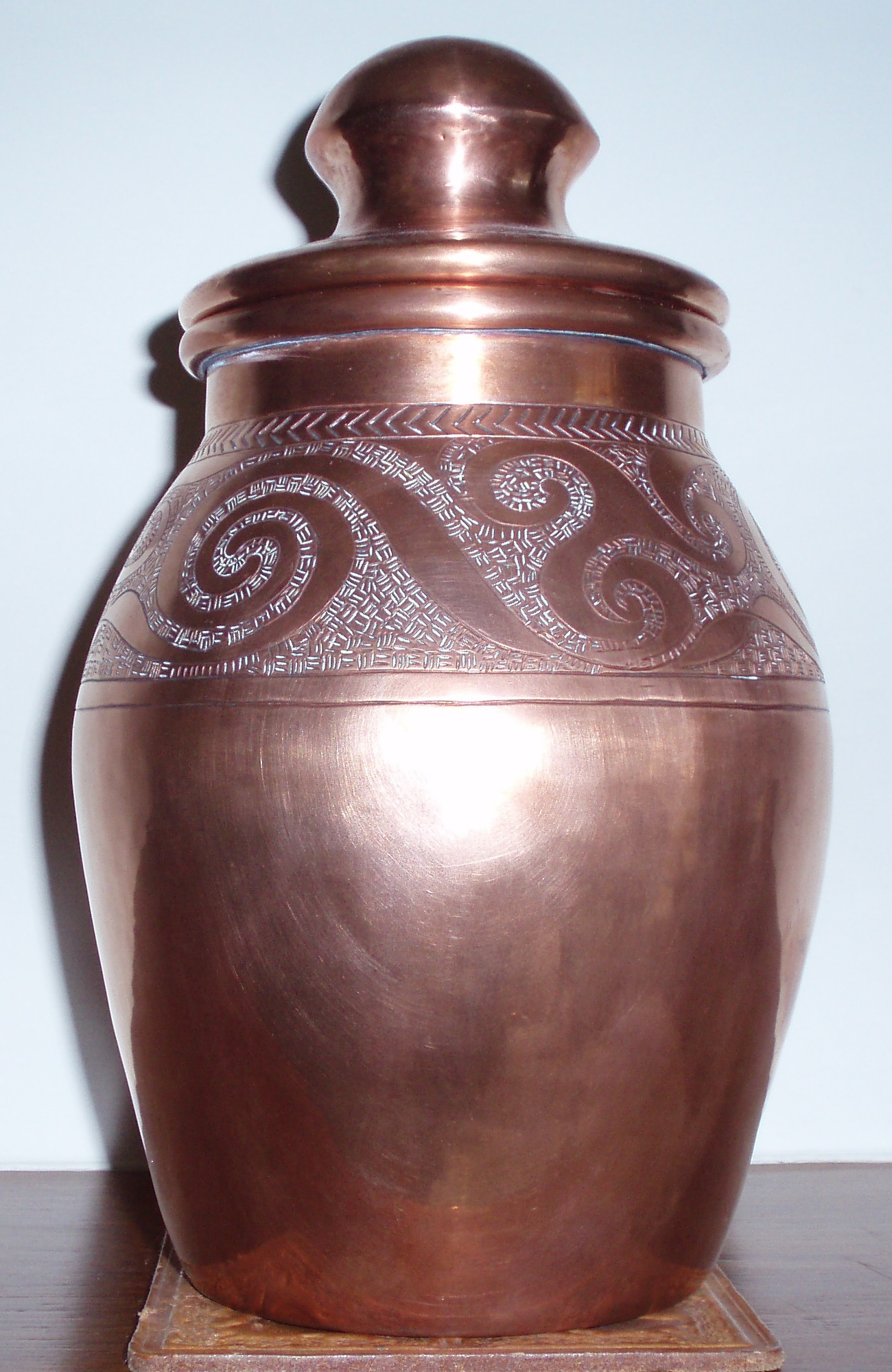 Francis Cargeeg Copperware Jar with Lid. Twentieth-century use of Celtic motifs.